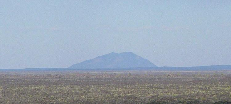 Big Southern Butte as seen from Craters of the Moon NM